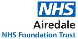 The logo of Airedale NHS Foundation Trust.